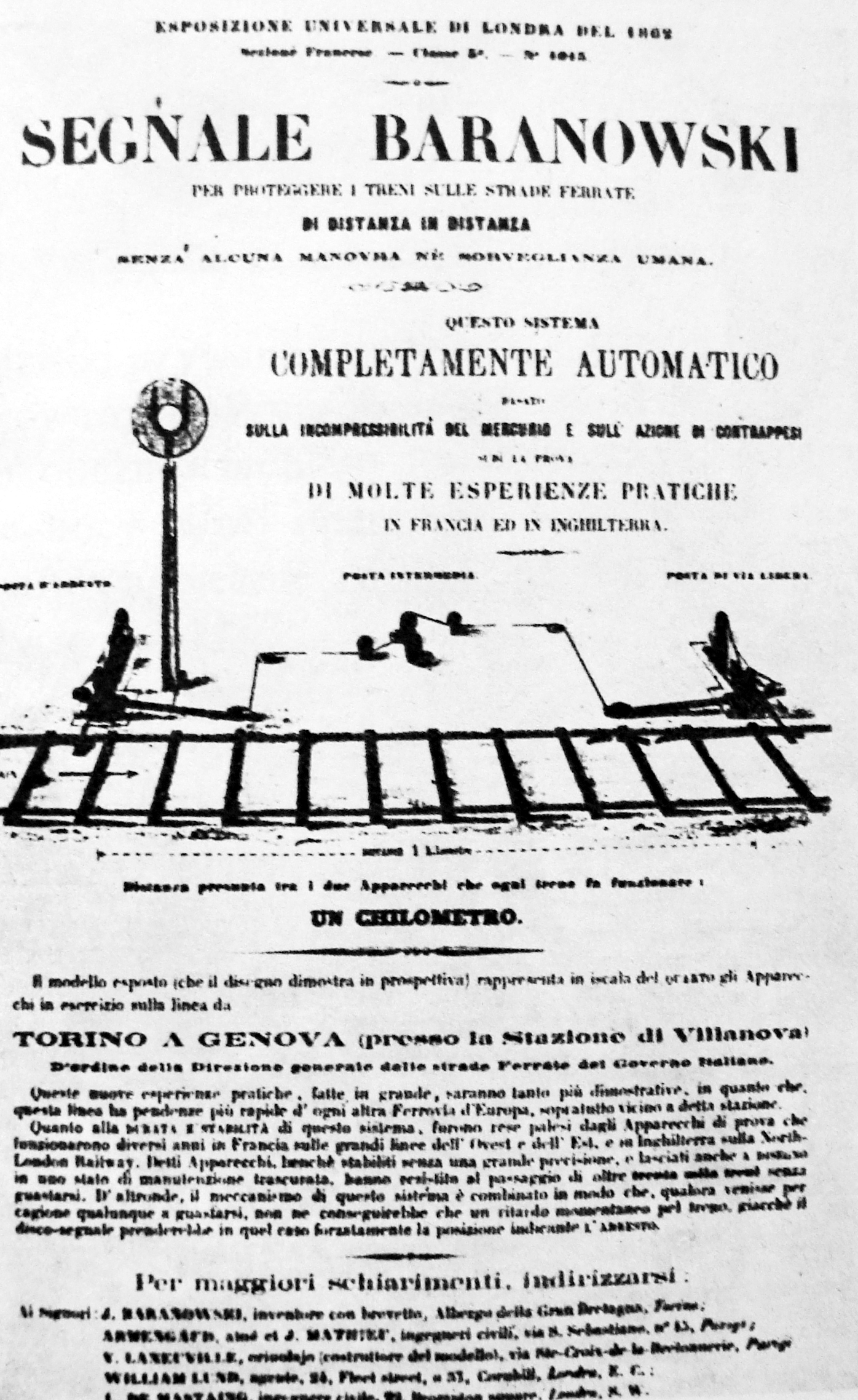 Jan Józef Baranowski Automatic Railway Signals.